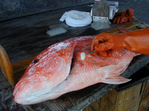 Removing a red snapper, Lutjanus campechanus, otolith (ear bone). Scientists determine the age of snapper by counting annual growth rings on their otoliths, similar to counting growth rings in trees.